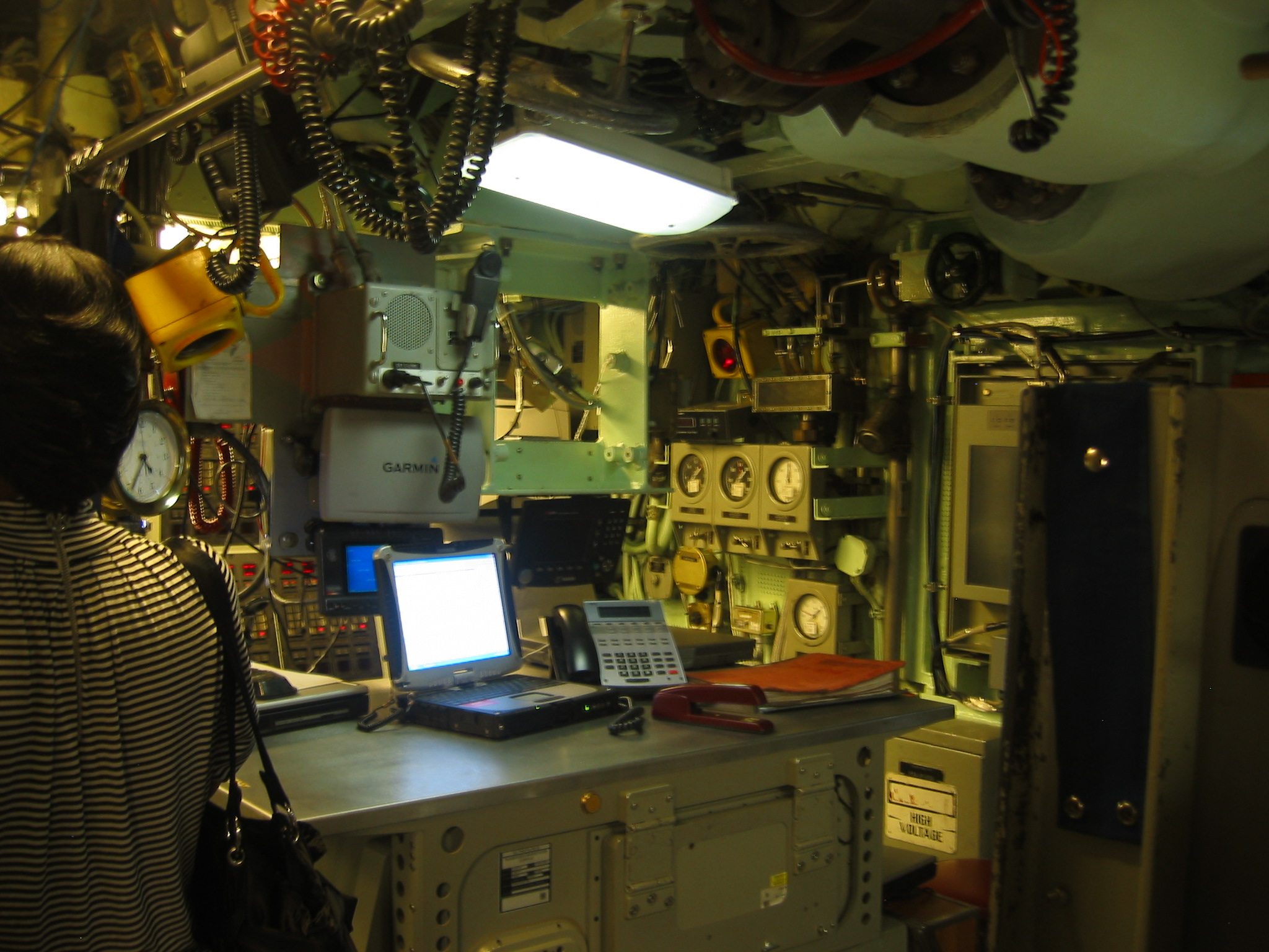 A view of the control room of the USS Jefferson City.